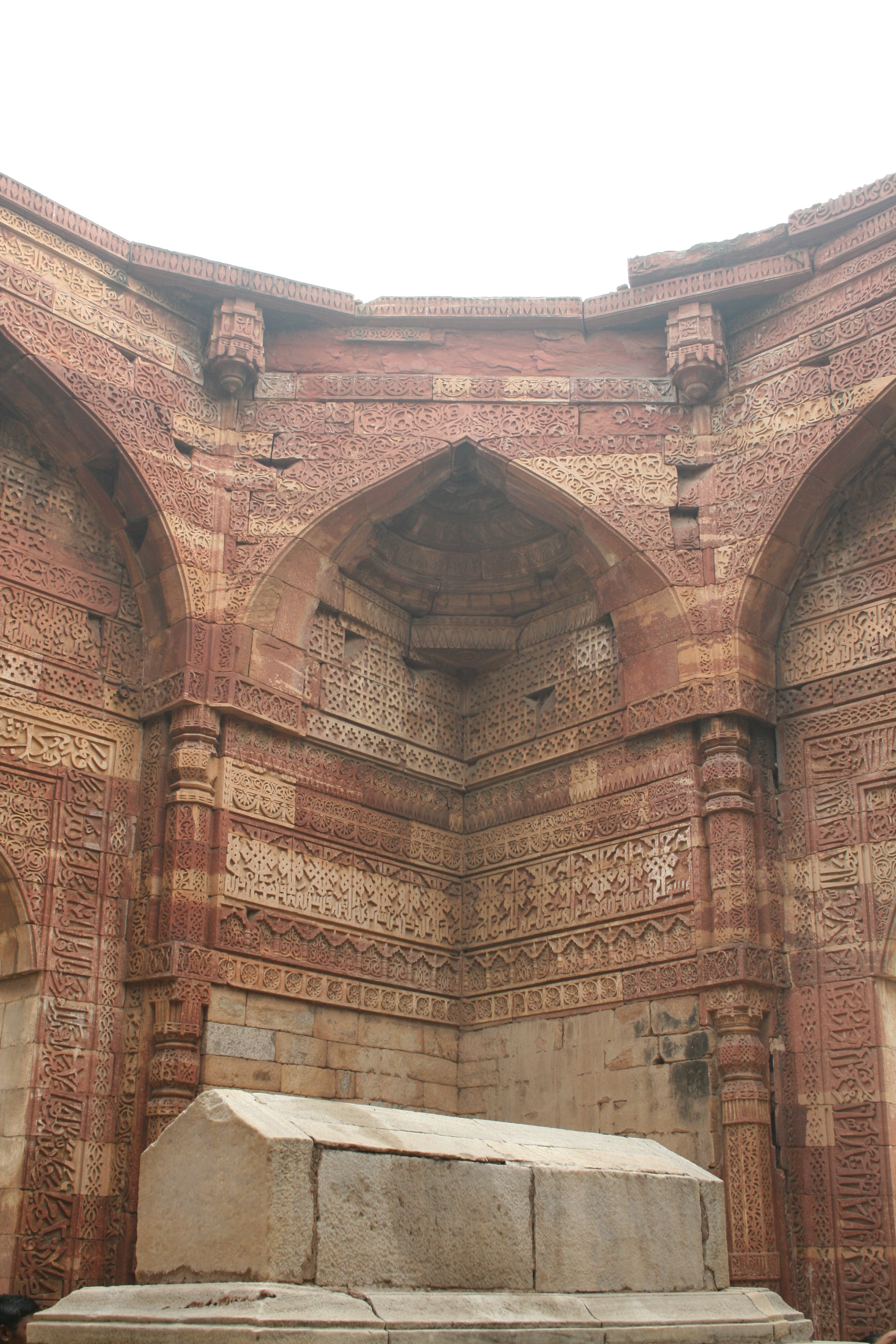 Qutb Minar and its monuments, Delhi, INdia